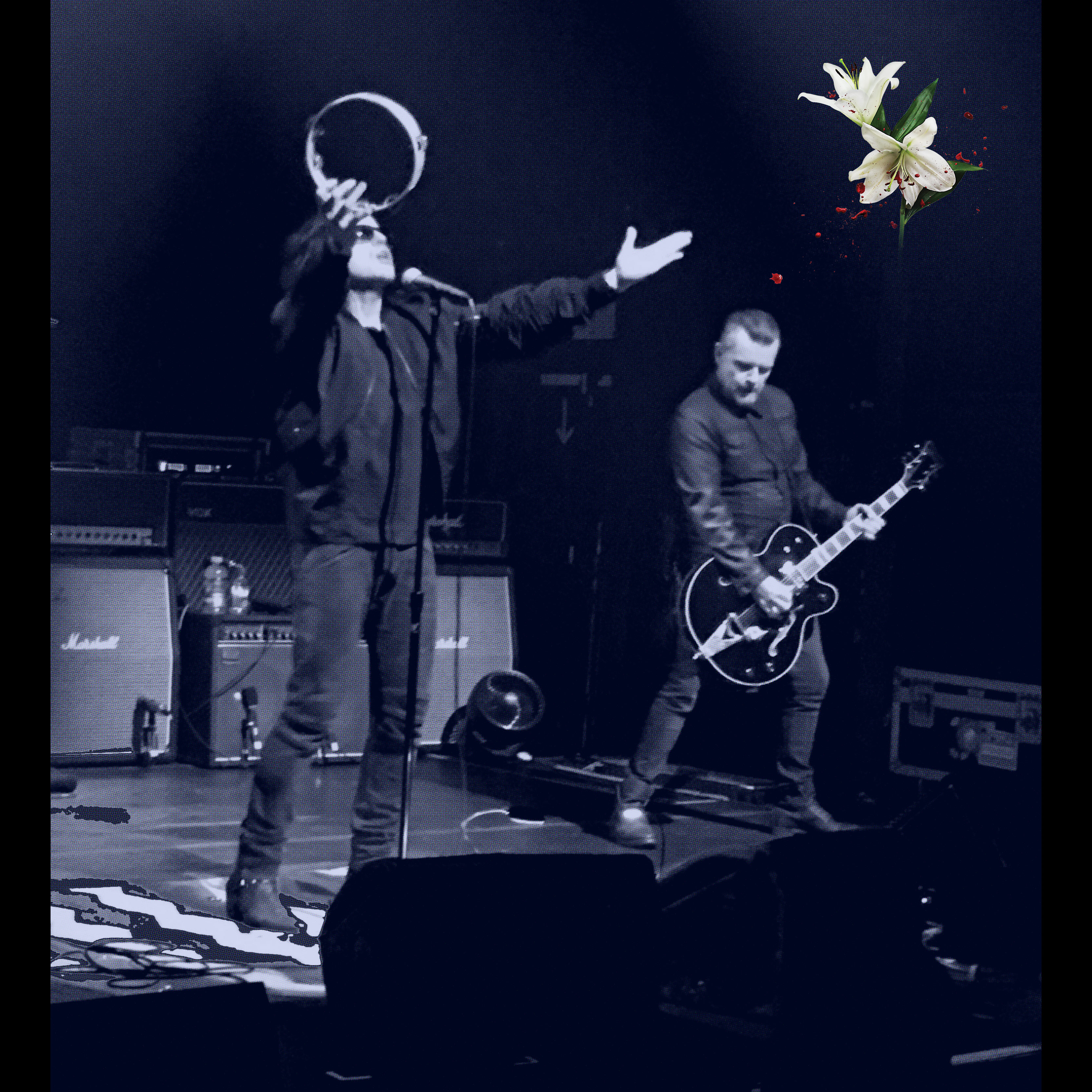 THE CULT, Alive in the Hidden City run of dates // 2016 -- (in support of their new album, Hidden City - photo by Sonya Koshuta)